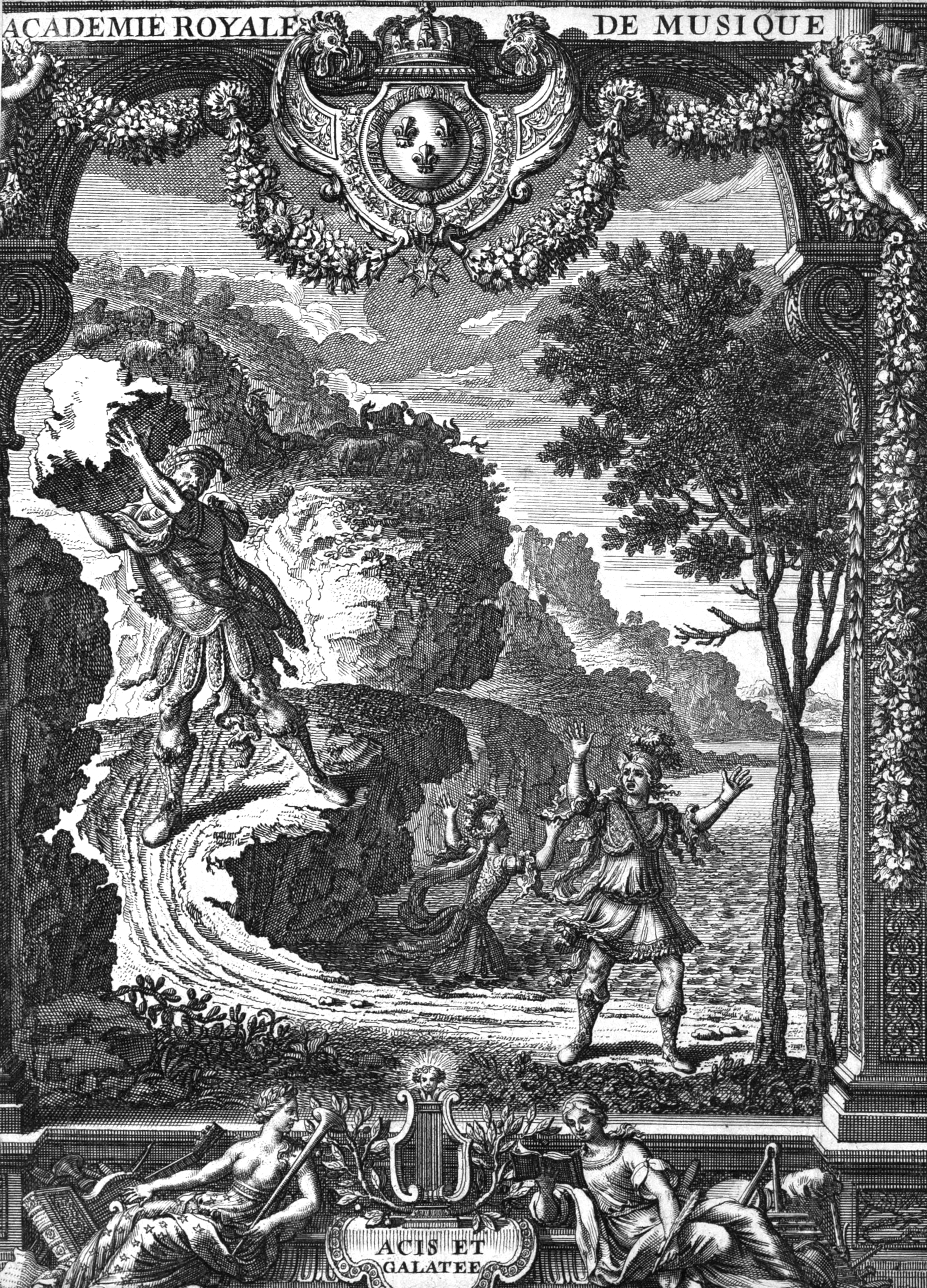 Lully - Acis et Galatée - frontispice of the libretto, Paris 1686